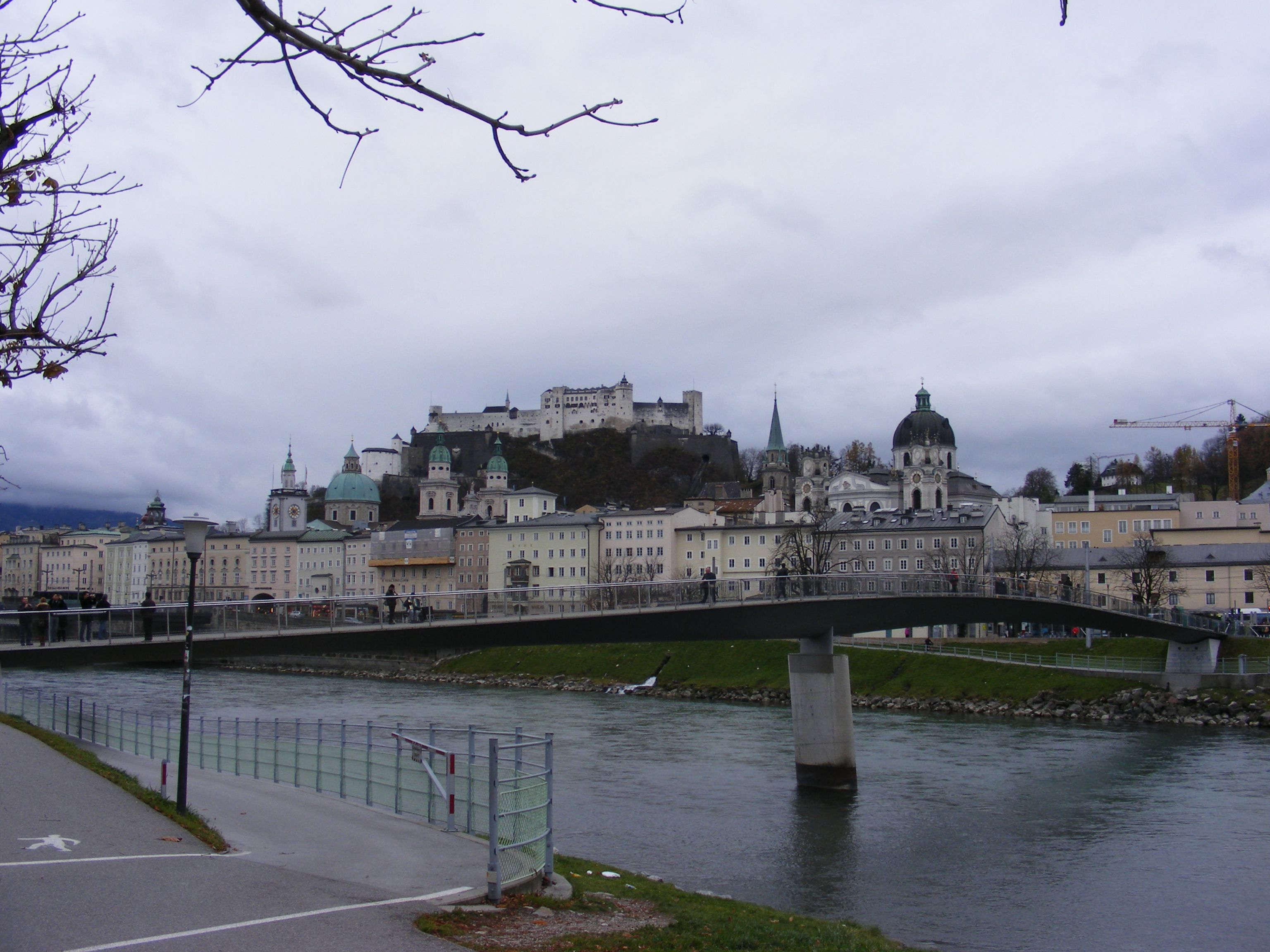 Makart foot bridge, City of Salzburg, Austria